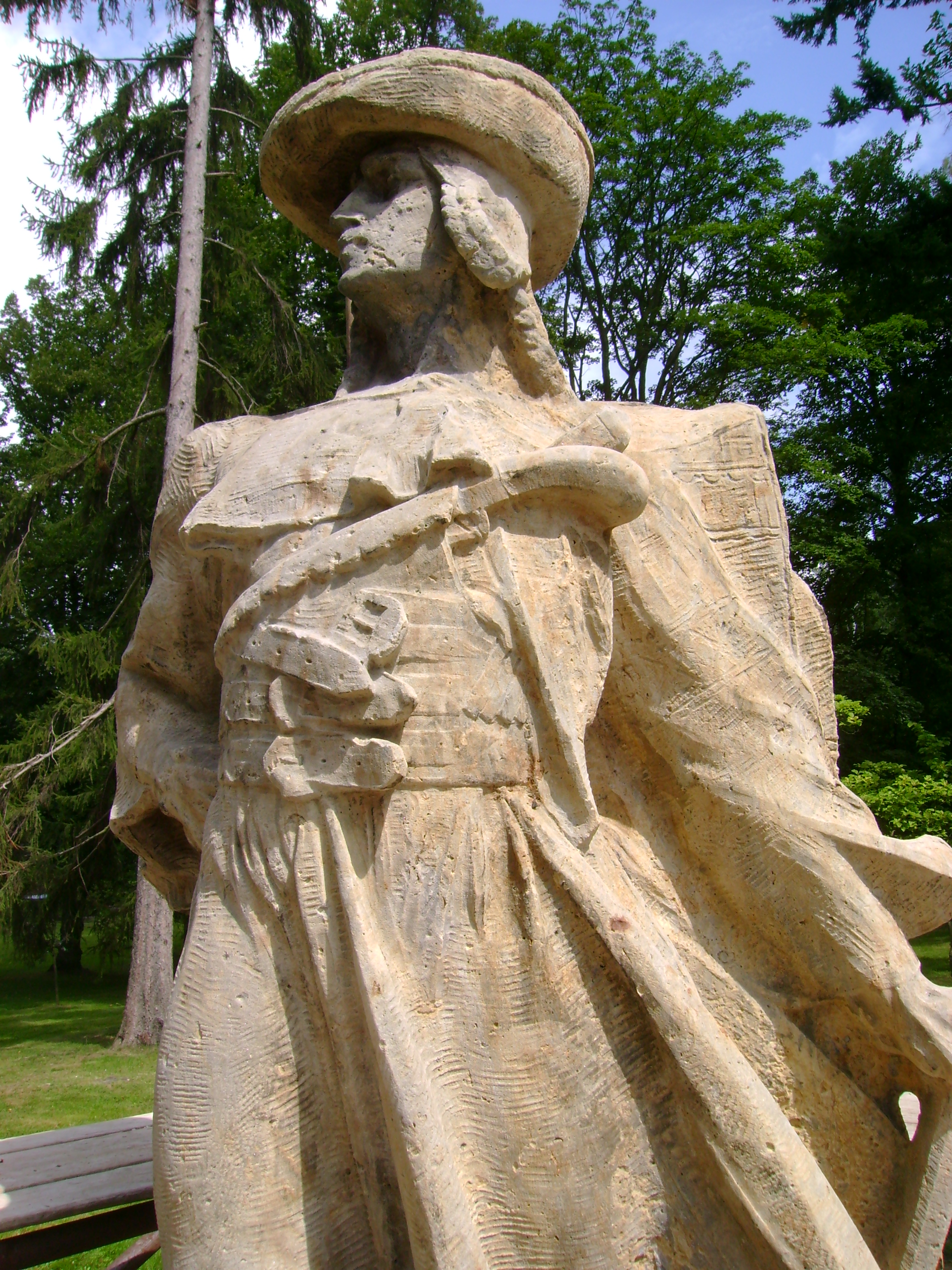 Juraj Jánošík (1688–1713), a Slovak Carpathian Highwaymen – detail of a statue in the Smetana Park in Hořice, Jičín District, the Czech Republic. Sculptor: Franta Úprka (1868–1929).